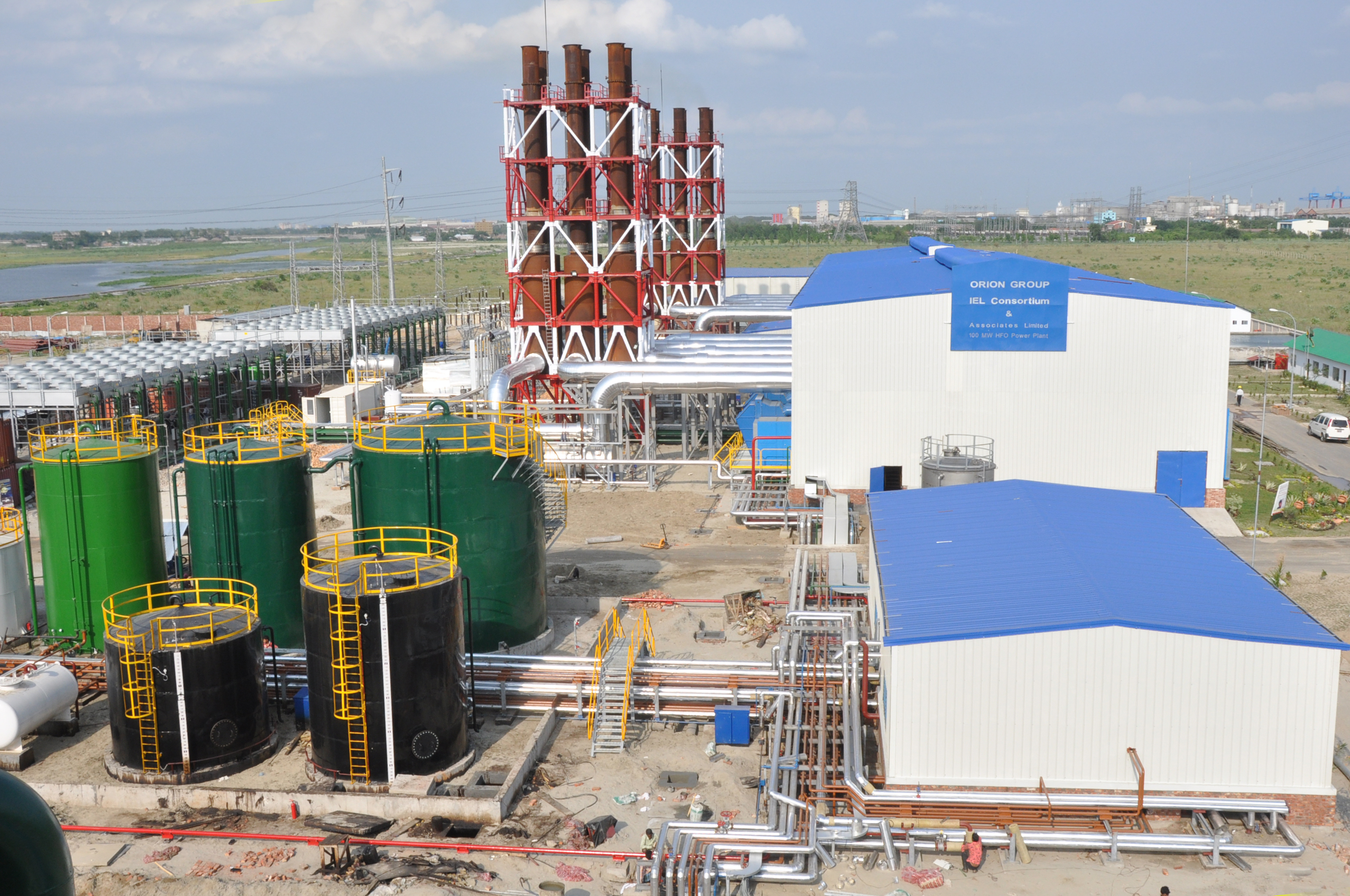 ORION GROUP recognizes the challenges the country faces to meet the acute power crisis and to deliver reliable and dependable electricity at affordable prices. Realizing this need, ORION has extensively focused on investments in Power Generation and Energy sectors through major investment undertakings and significantly contributed to the country’s national economy's stability through the right business to business strategy. Orion has already completed 2 units of 100MW each HFO based Power Plants and is distributing to the national grid on a regular basis. Another 100MW HFO based Plant is under construction and about 1200 MW Coal Fired Power Plants are down the pipeline. With these, ORION hopes to become the pioneer in private sector of the country.IEL Consortium & Associates Ltd. IEL has completed implementation of a 100 MW HFO Power based Plant on quick rental basis in Meghnaghat, Dhaka with machineries and equipment supplied by Wartsila OY, Finland. The construction was completed in a record time of just 9 months with brand new machine. The generated output of 105 MW is regularly supplied to the national grid. The financing of the project has been raised locally.